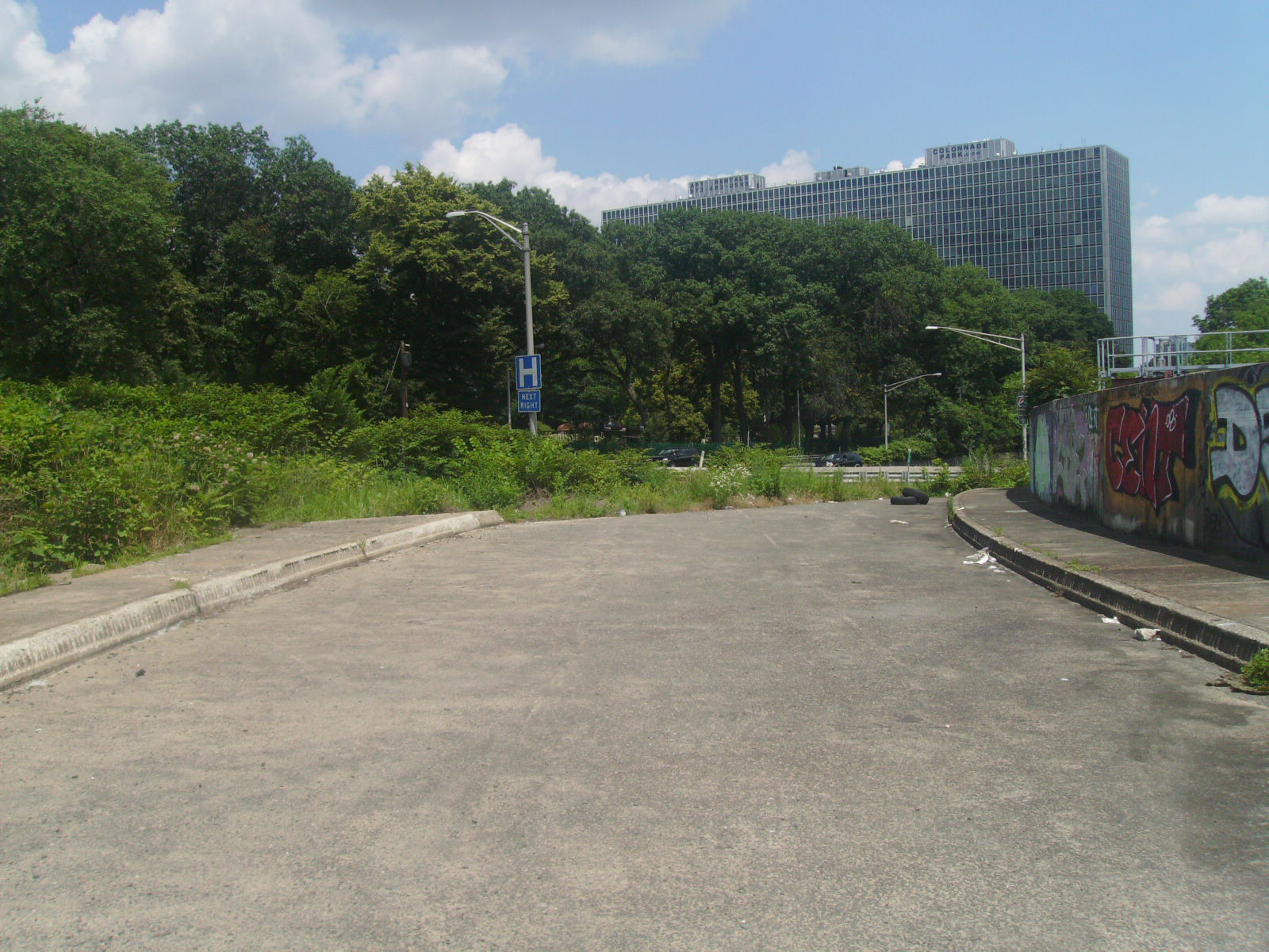 A view of the abandoned New Jersey Route 58 stub towards Interstate 280, which theoretically replaced it.